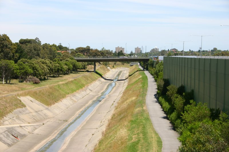 Moonee Ponds Creek at West Brunswick looking south. Photo taken from the Hope Street pedestrian overpass. Moonee Ponds Creek Trail on the west bank next to the Tullamarine Freeway. Photo by and released under GNU FDL